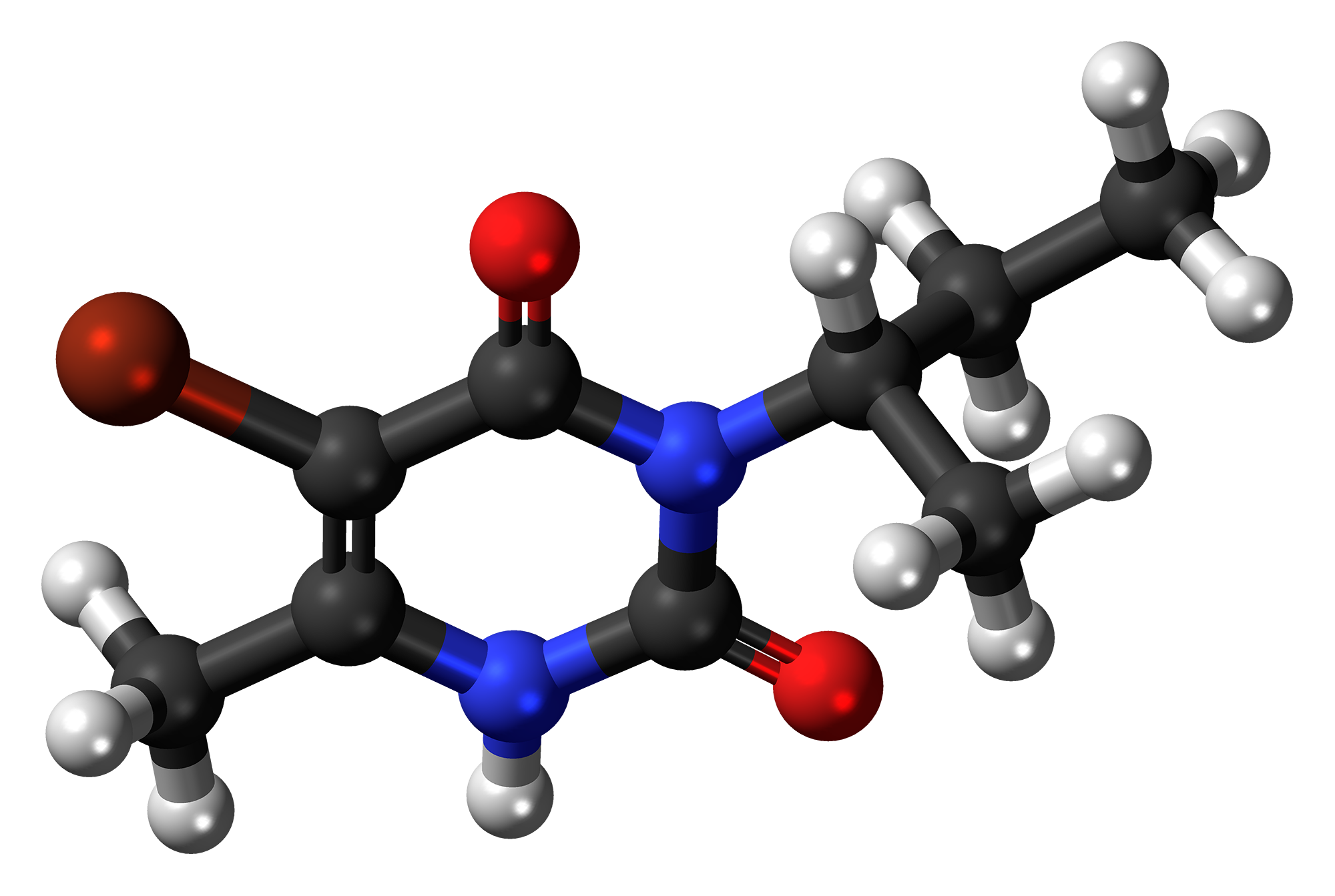 Ball-and-stick model of the bromacil molecule, a herbicide. Color code: Carbon, C: black Hydrogen, H: white Nitrogen, N: blue Oxygen, O: red Bromine, Br: red-brown